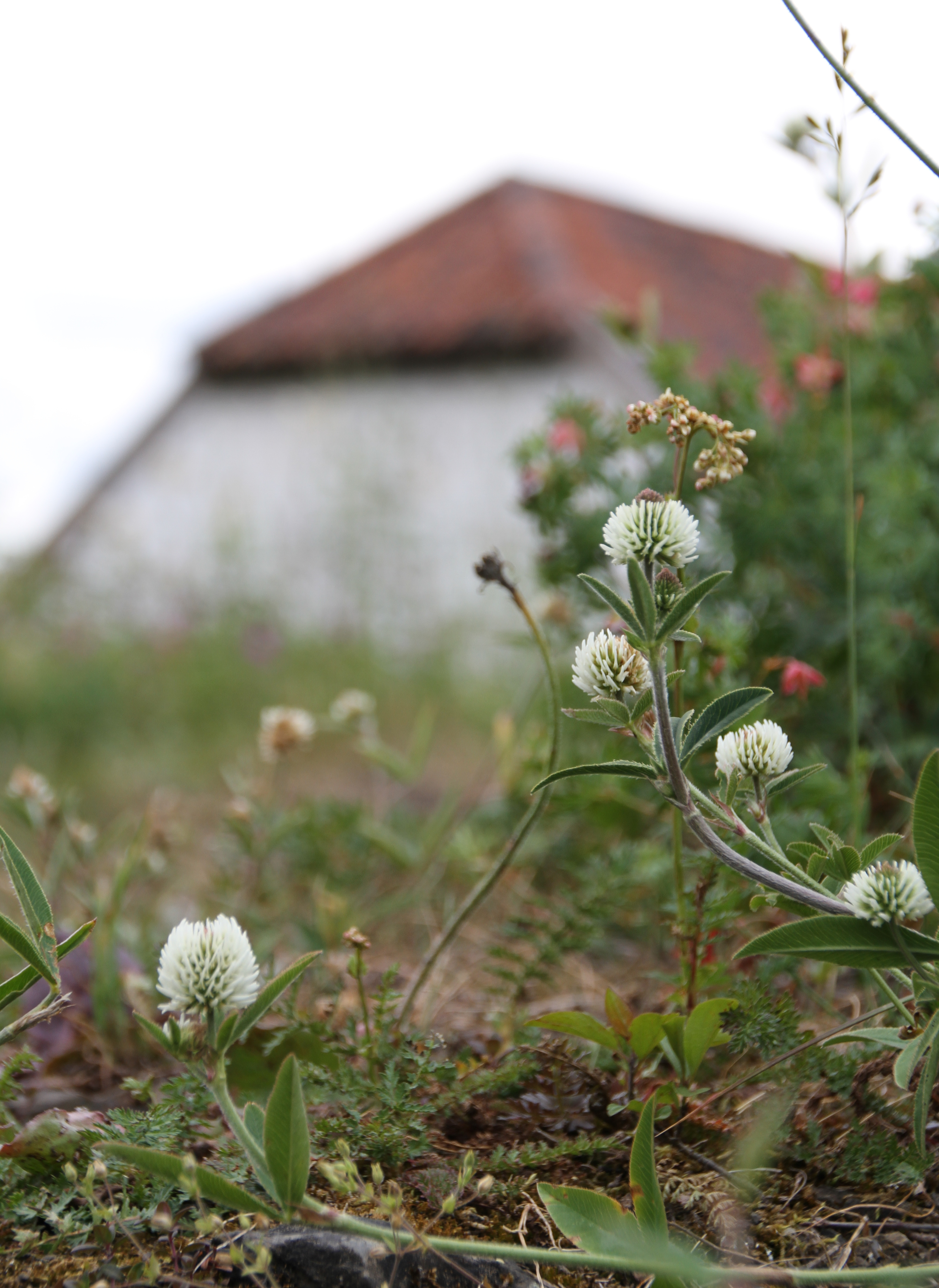 Trifolium montanum (norwegian: Bakkekløver) is a specie on retreat in Norway, present in Oslo and some other places. Here at the Hovedøya island, one of it's few refuges in the city.